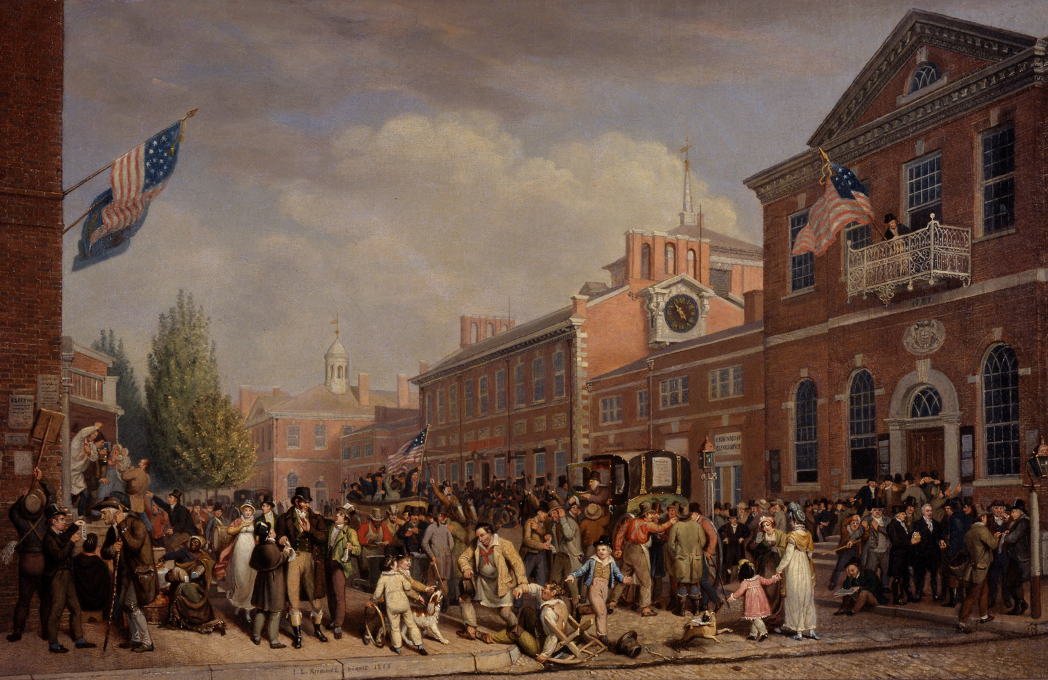 Election Day in Philadelphia, also known as Election Scene. Statehouse in Philadelphia 1815 (1815) by John Lewis Krimmel (1787-1821), one of two similarly named paintings by the artist. Oil on canvas, 16 by 25 inches. Signed and dated. Held by the Winterthur Museum of Art Other information For detailed information on provenance and history of ownership, see Milo M. Naeve, John Lewis Krimmel: An Artist in Federal America (Associated University Presses, 1987), pp. 75-78